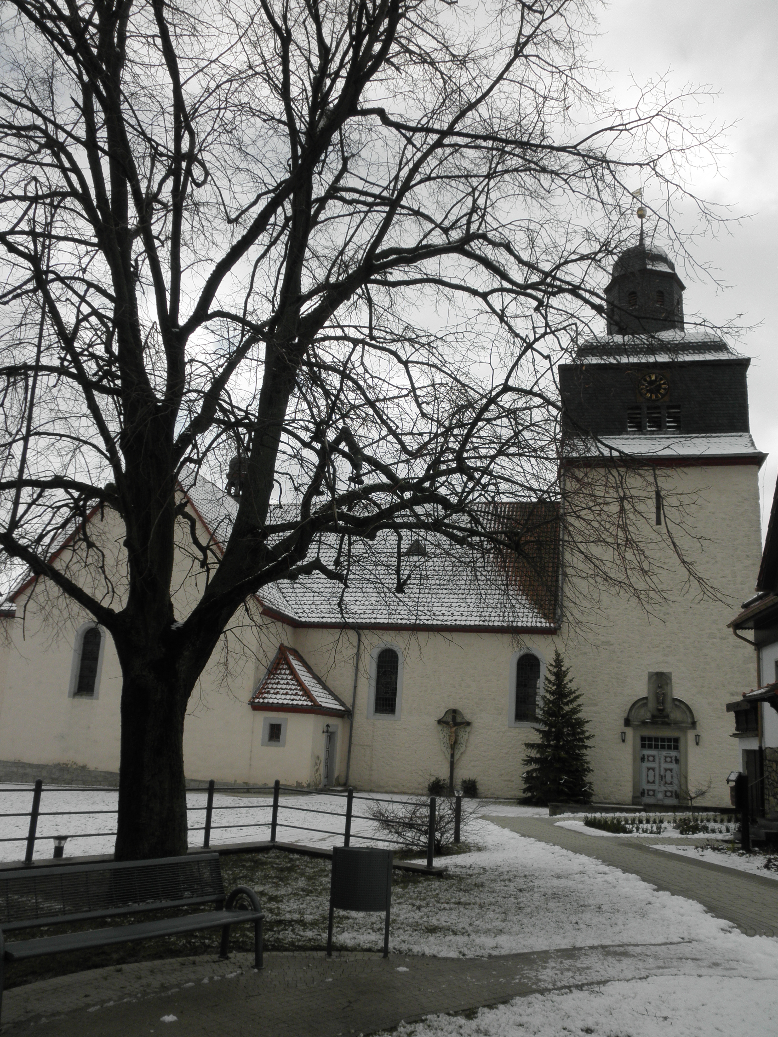 Church in Kefferhausen (Eichsfeld) in Thuringia